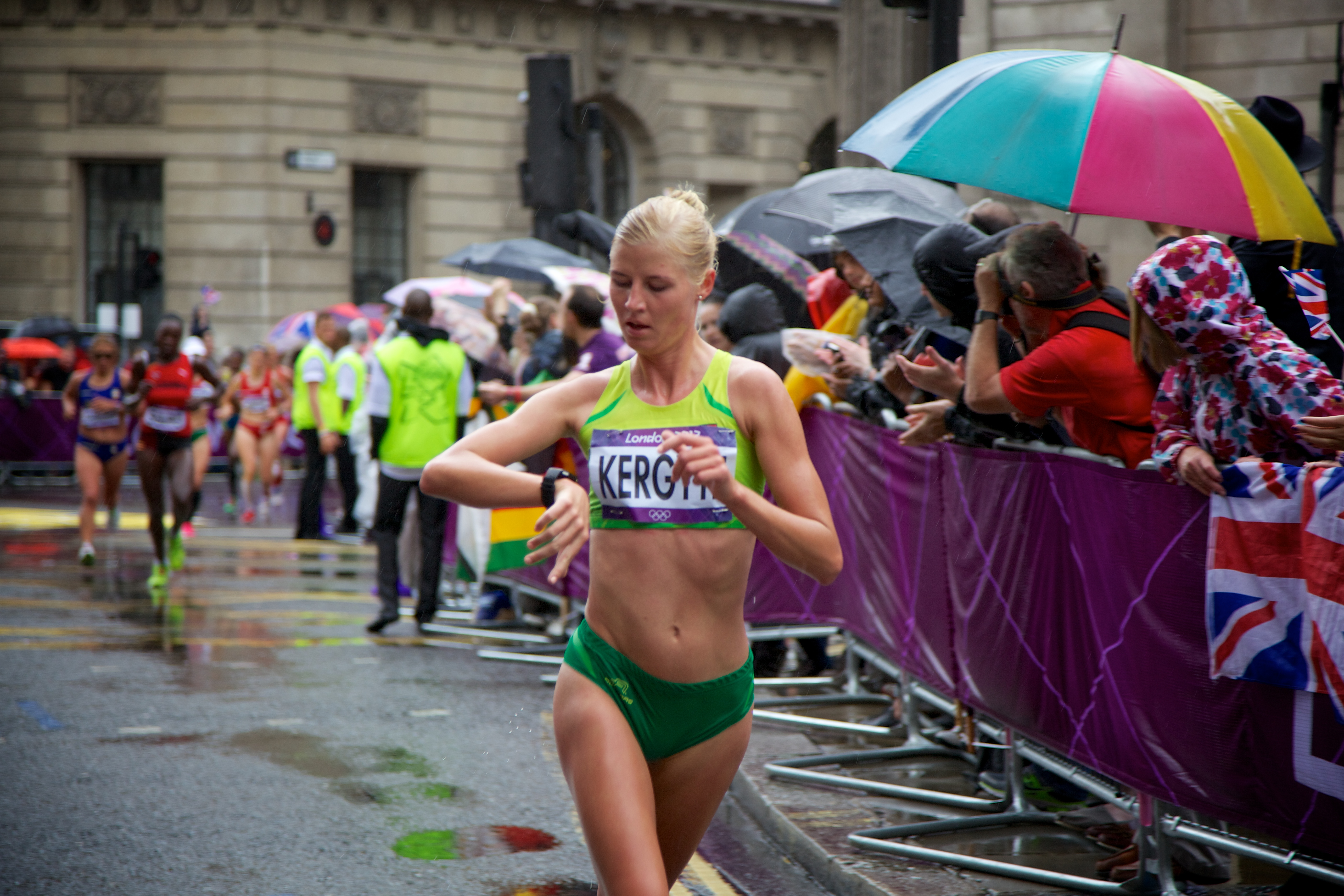 Women's Marathon